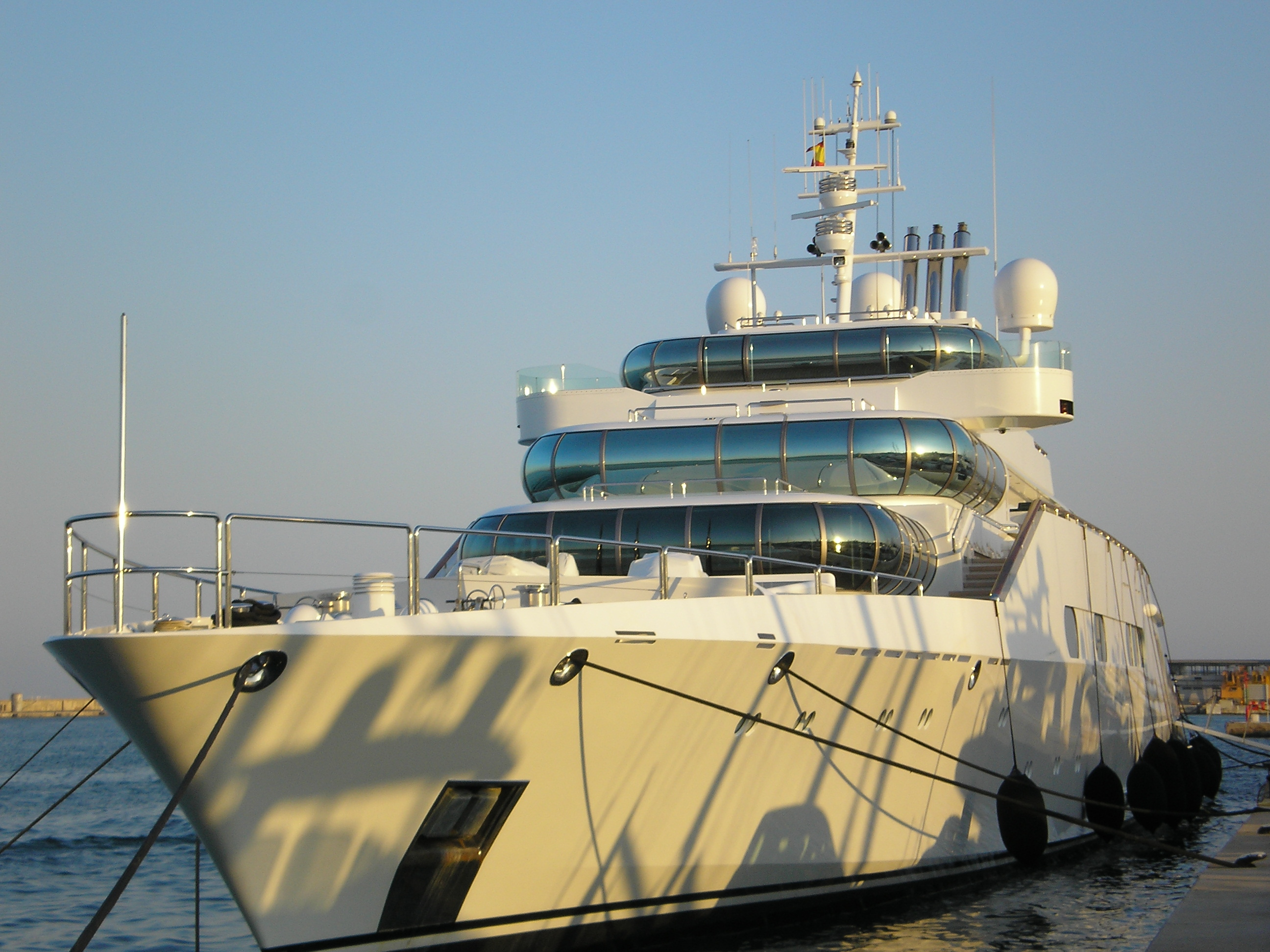 The "Enigma" superyacht in Palma de Mallorca, view from near the front IMO number : 1001506 Call Sign : J8Y2410 Gross tonnage : 1150 Type of ship : Yacht Year of build : 1991 Flag : St Vincent and Grenadines